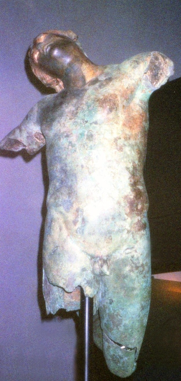 Dancing Satyr of Mazara del Vallo. Bronze, 4th century BC or Neo-Attic period. Found in 1997 (leg) and 1998 (torso) off the southwestern coast of Sicily.